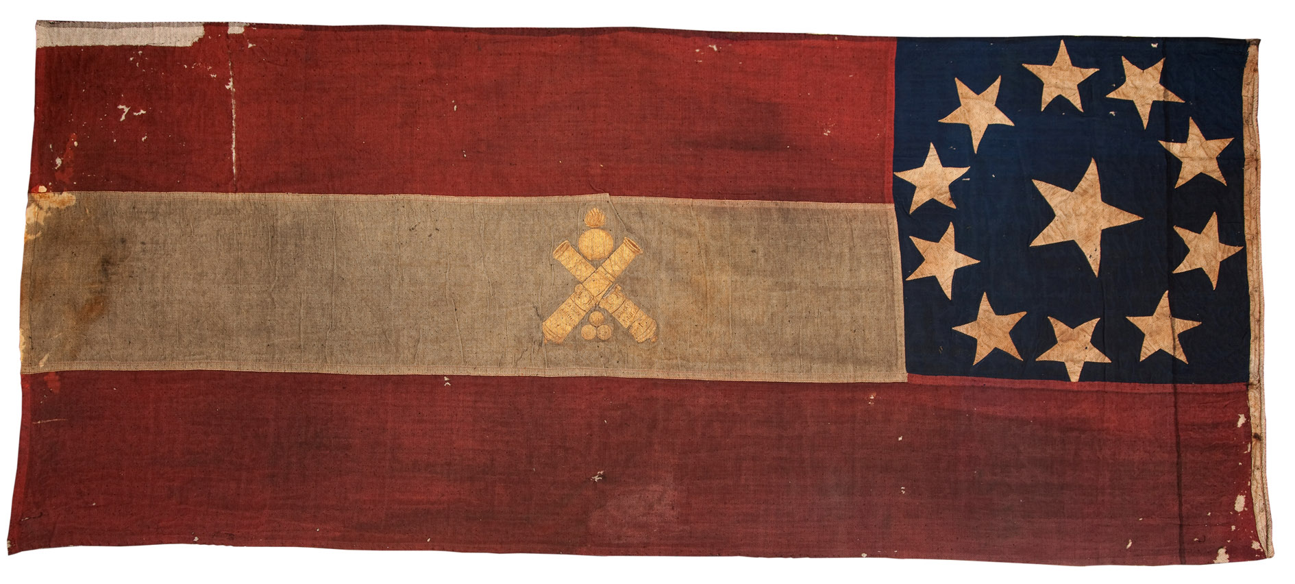 Flag, Hart's Battery, Old State House Museum Collection. Note: This Confederate First National pattern flag represented "Hart's Battery," also known as the "Dallas Artillery" which was organized at Dallas, Arkansas (Polk County), in August, 1861. Hart's Battery fought at the Battle of Pea Ridge, where it lost its guns and its flag. The battery was first disbanded on a charge of dishonorable conduct in the face of he enemy, but was later cleared and was allowed to reorganize in time to be captured again at the Battle of Arkansas Post on January 10, 1863. After the battery members were returned in a prisoner-of-war exchange, the unit was reorganized and re-designated as the 2nd Arkansas Field Battery.